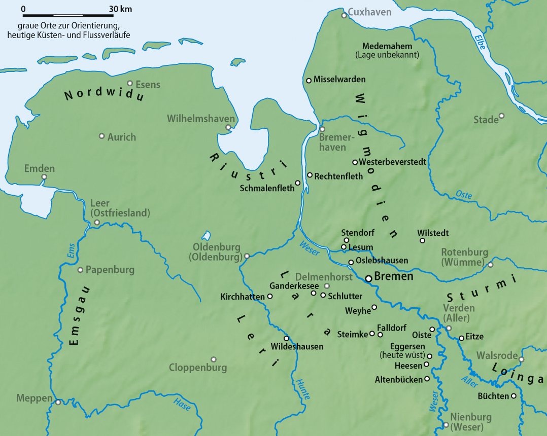 Origin locations of pilgrims who were cured by a miracle at the grave of Willehad of Bremen